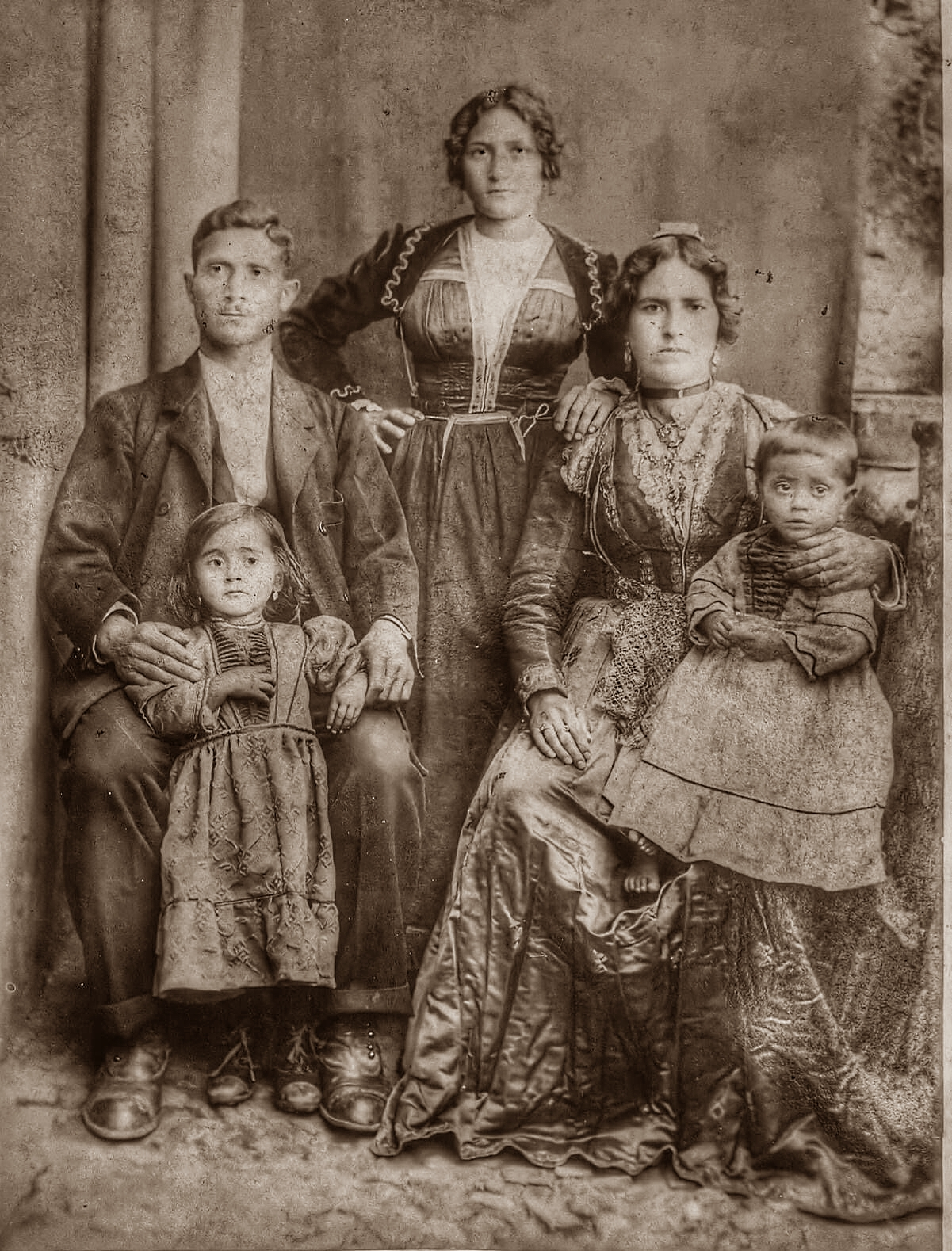 An Arbëresh-family from Mongrassano, about 1940